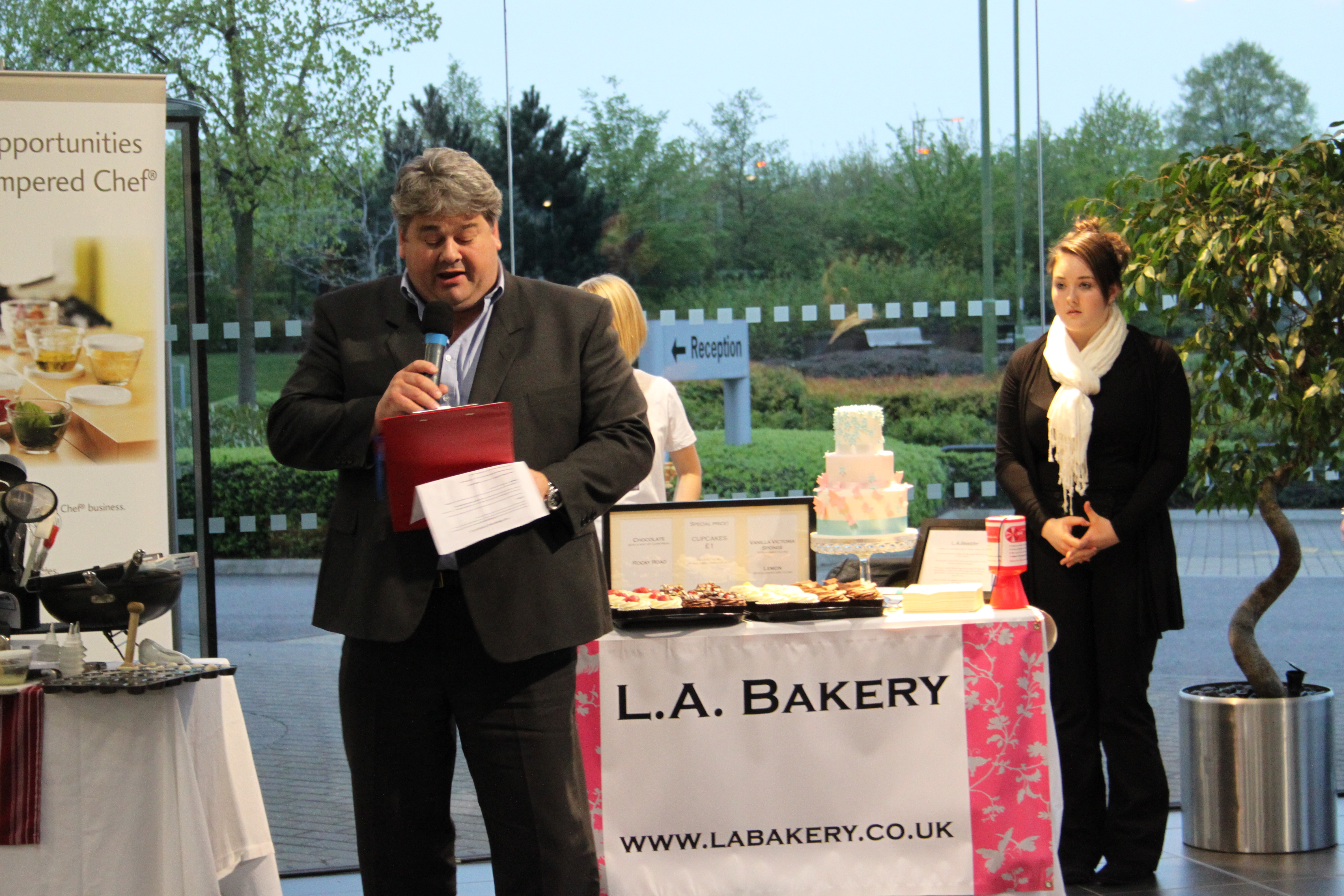 Jason Dawe making a speech at a fundraising evening for Herts Air Ambulance.